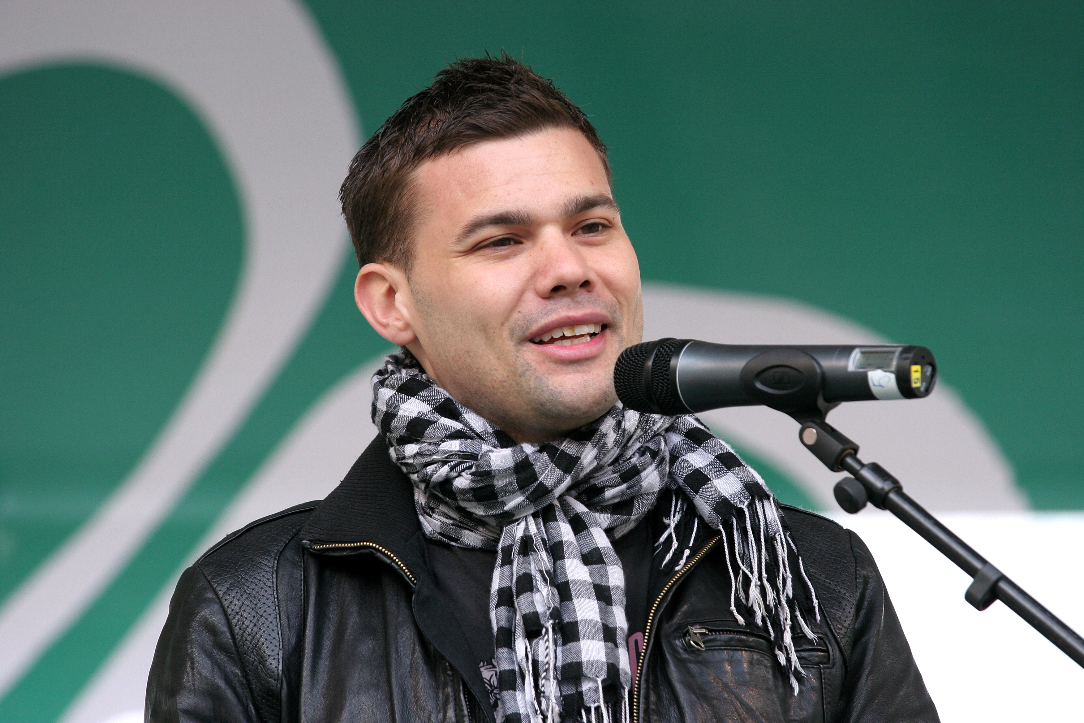 The president of the Center youth federation Magnus Andersson speaking at a rally in Örebro during the Centerparty congress 2009